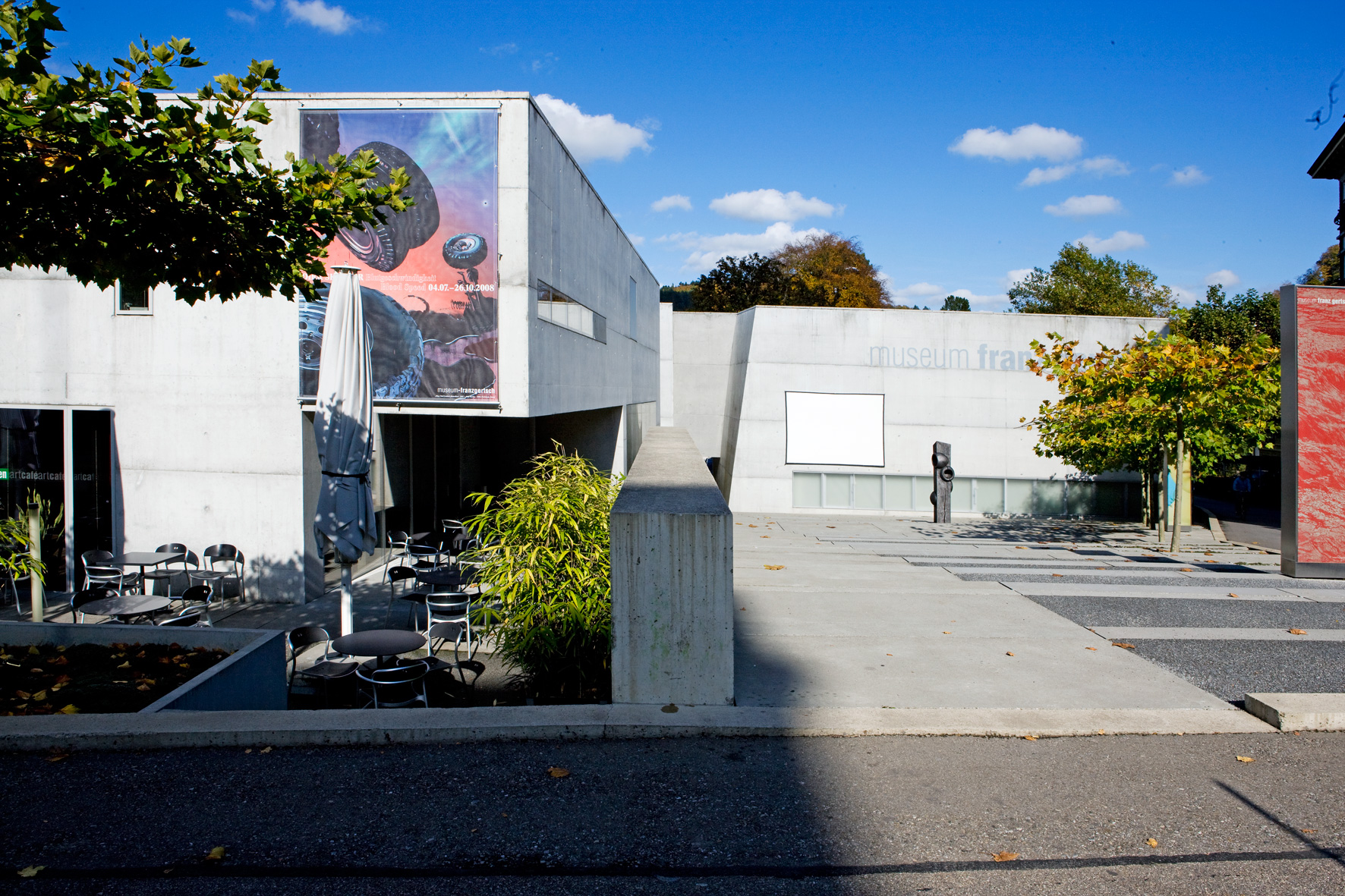 Burgdorf (Switzerland), Museum Franz Gertsch